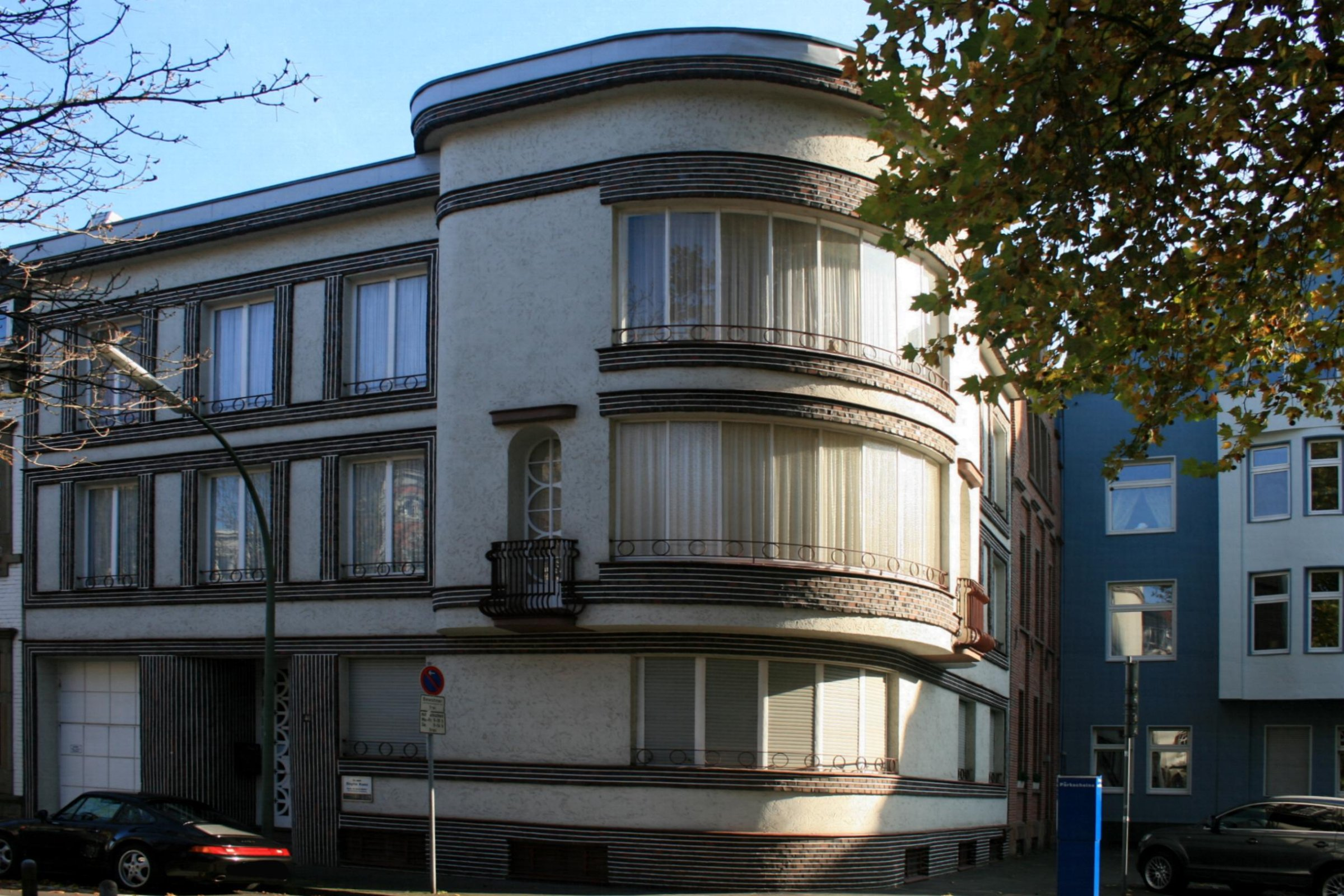 This is a photograph of an architectural monument.